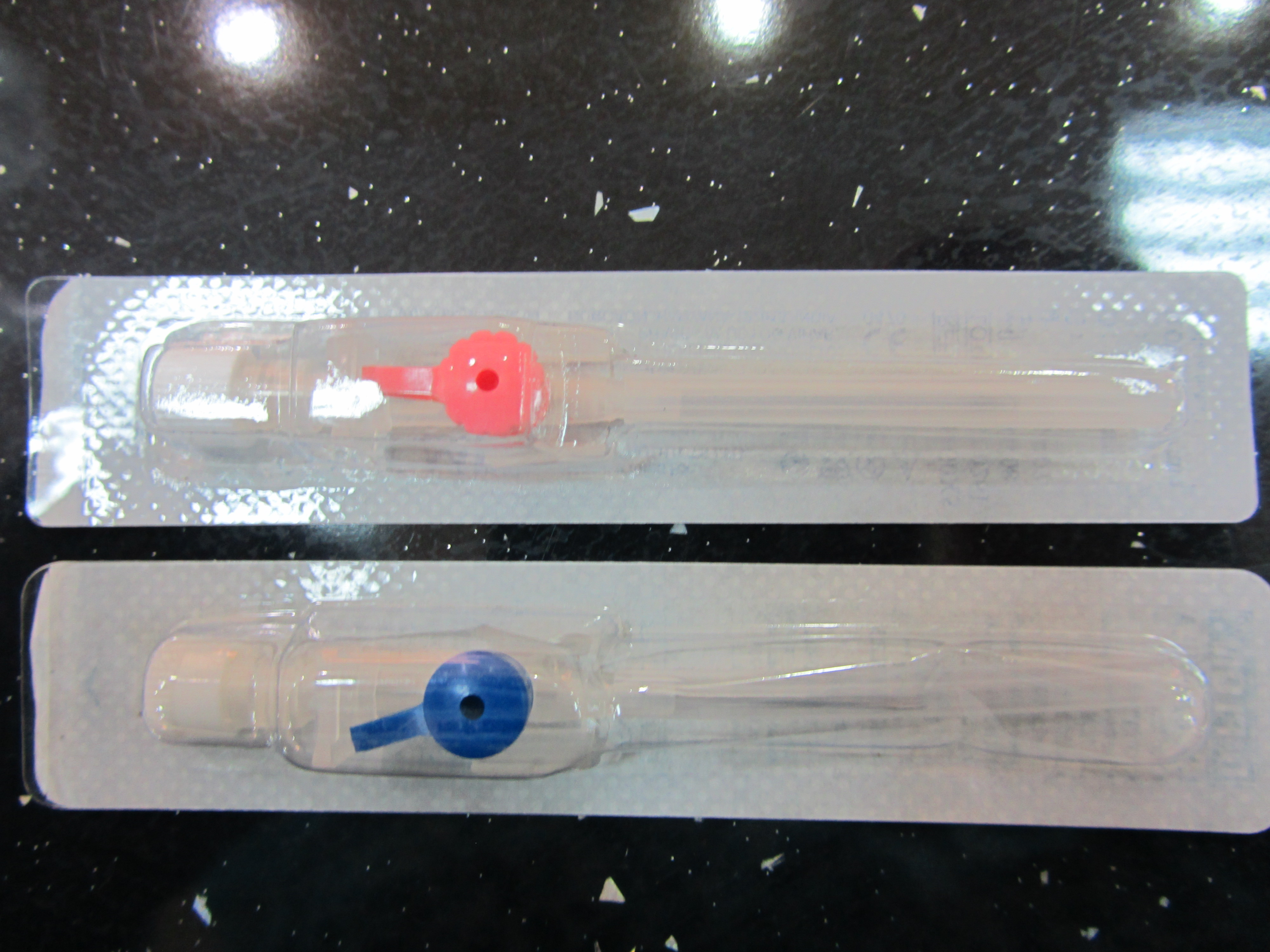 Pink 20G, Blue 22G